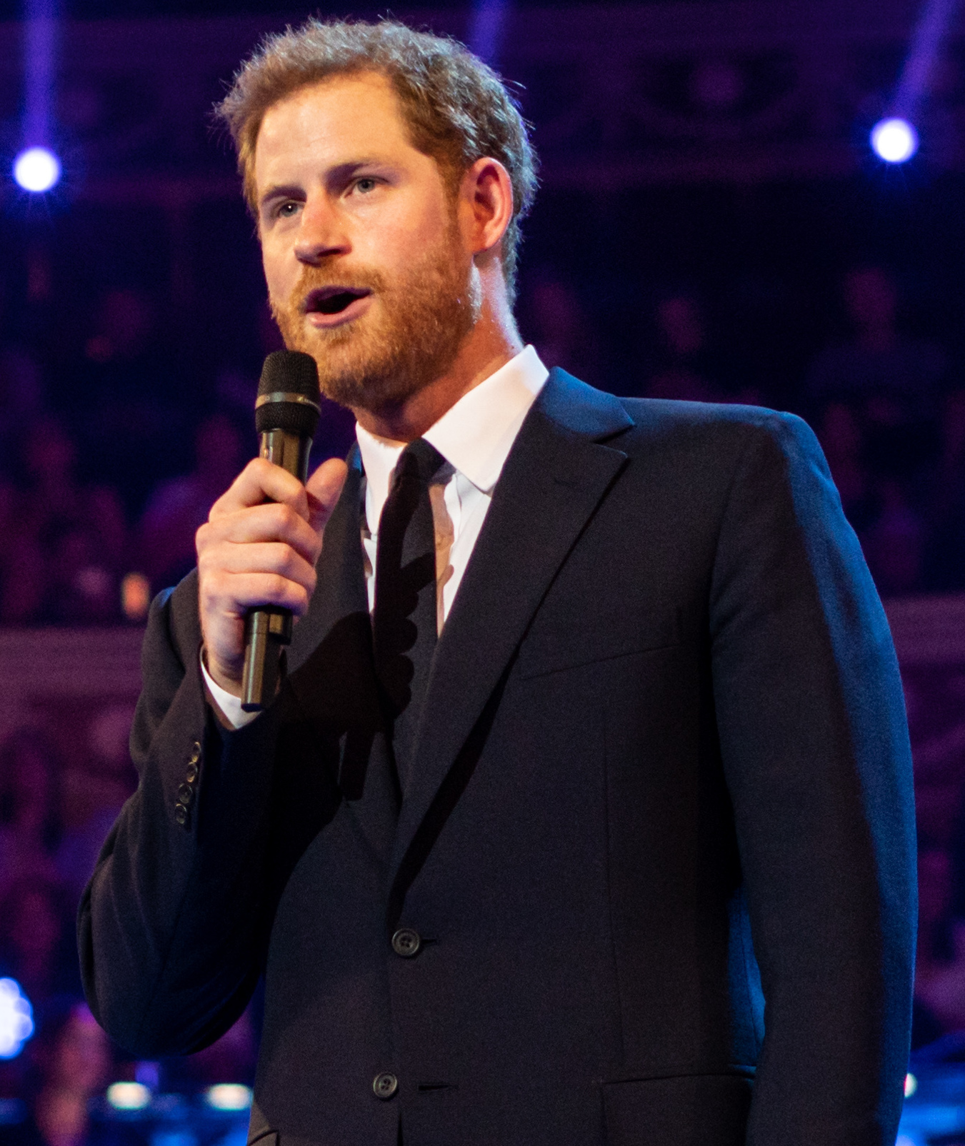 Prince Harry at The Queen's Birthday Party